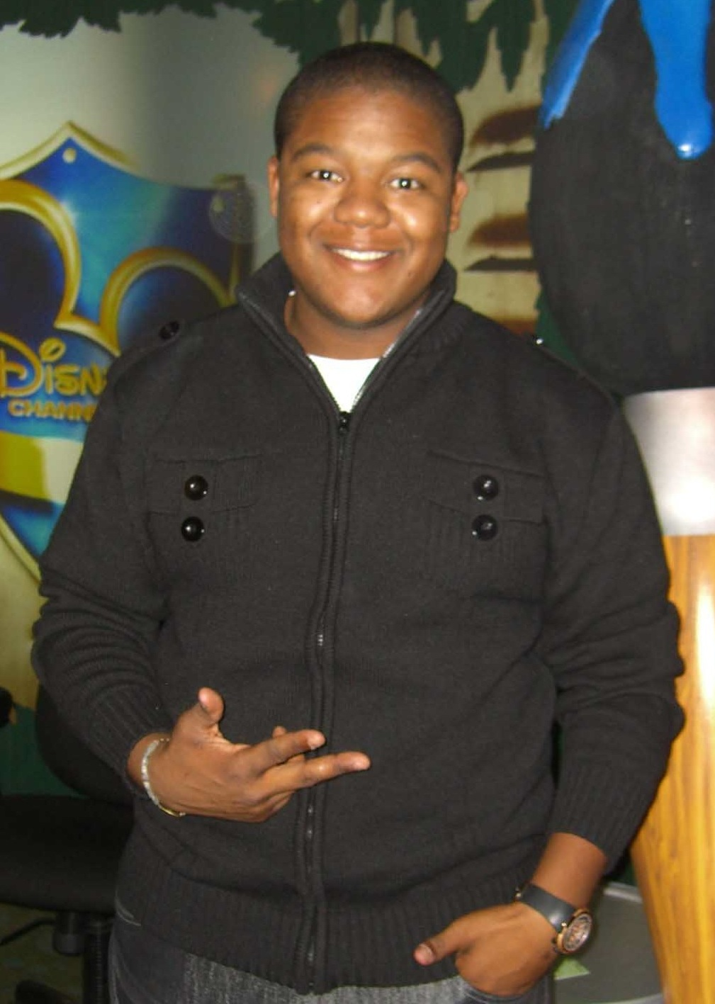 Actor and Dancing with the Stars personality Kyle Massey, at the November 30, 2010 launch party for the Disney video game Epic Mickey, at the Times Square Disney Store in Manhattan. Photographed by Luigi Novi. This photo is not in the public domain. It may, however, be used, modified and published for any purpose, only if an easily visible credit to the photographer is placed near the photo in each instance in which it is used. (See licensing information below.) Publication of this photo without this proper attribution constitutes copyright infringement. For more information on my photos, you can contact me here.